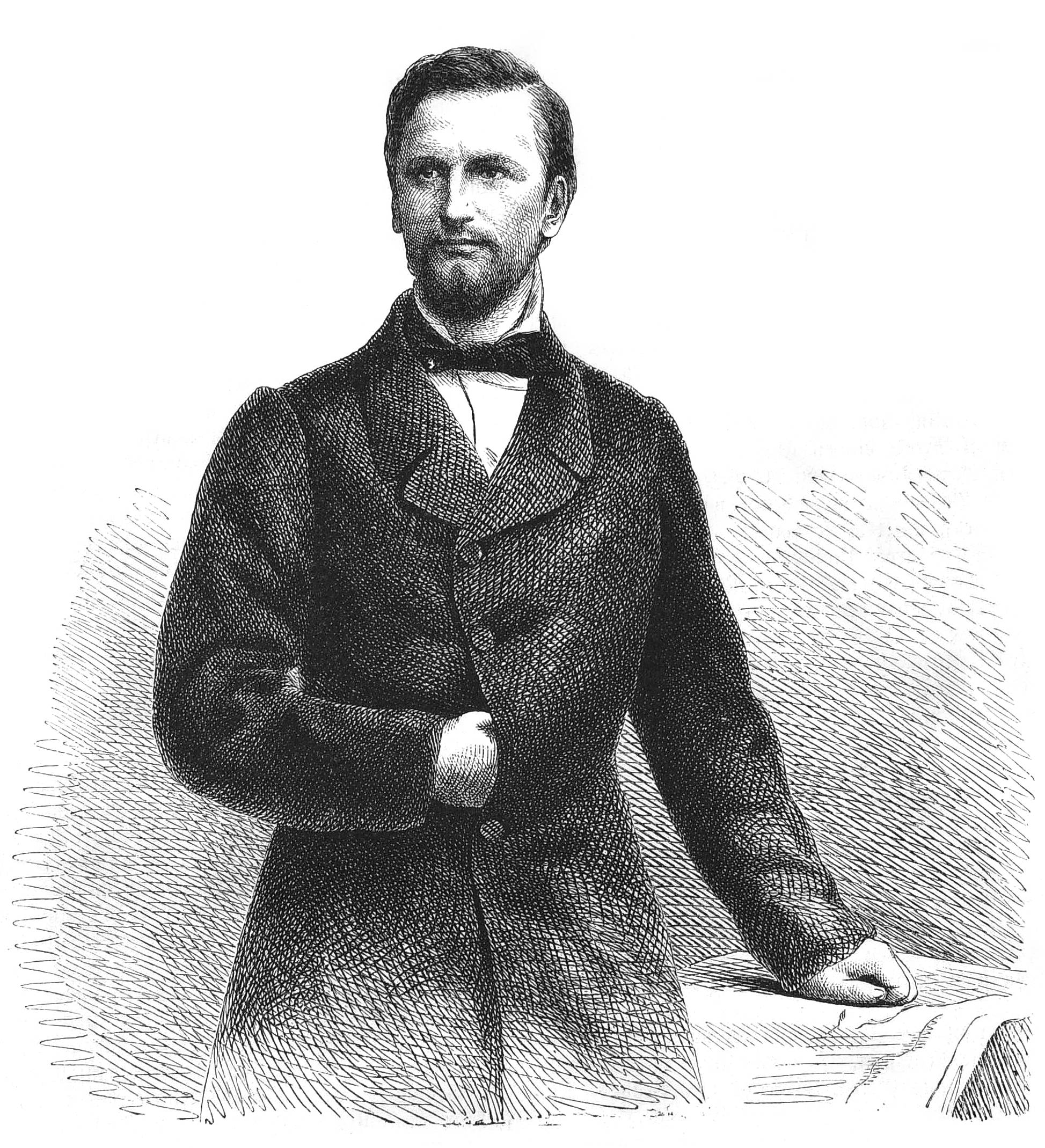 no caption